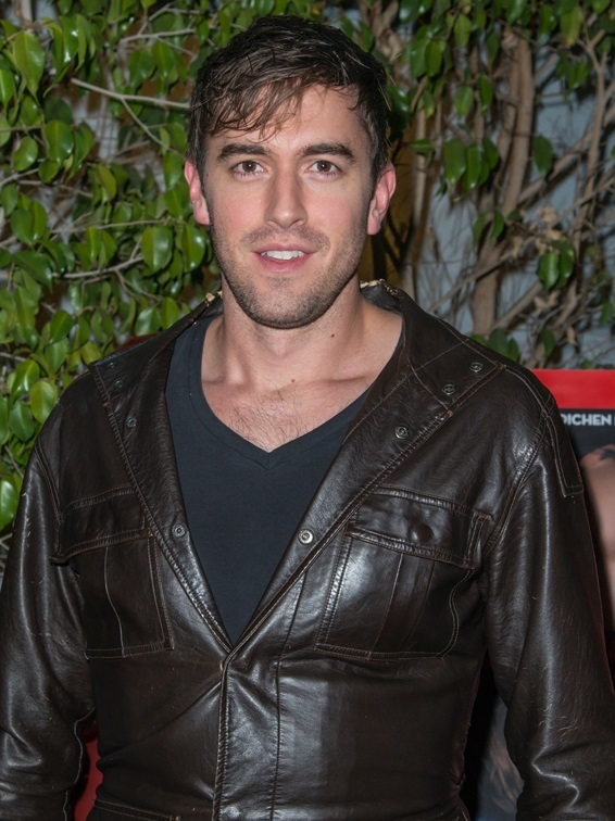 Yeend attends the premiere of 'Lust for Love', Feb 2014 - Los Angeles. Other information: Photo was taken by Eugene Powers for 'Whedonopolis' at the 'Lust for Love' premiere. The photographer has provided free use of the images from the website and can provide evidence of permission. Original photo has been posted at